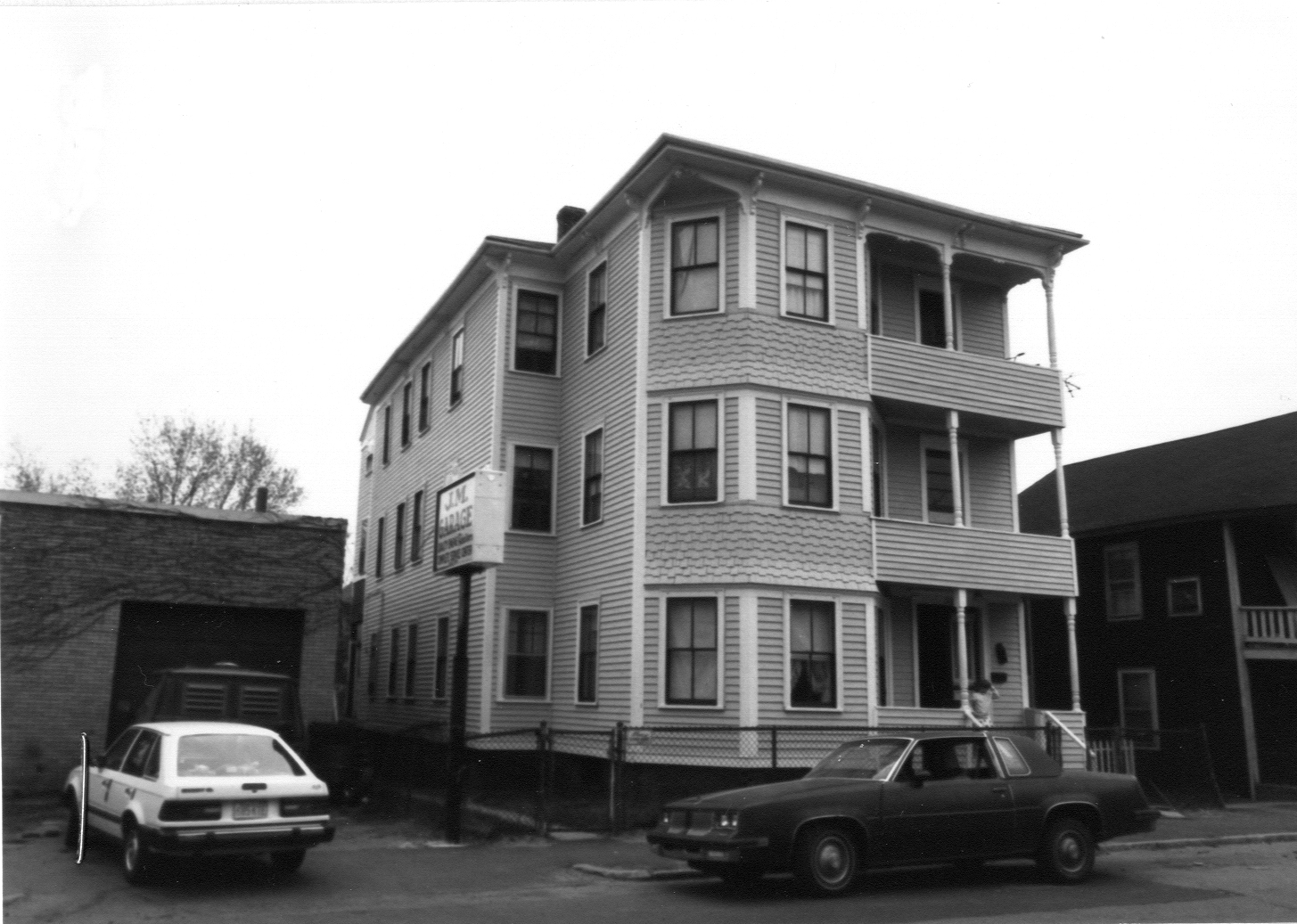 Elizabeth McCafferty Three-Decker, Worcester, Massachusetts. This house has been demolished.